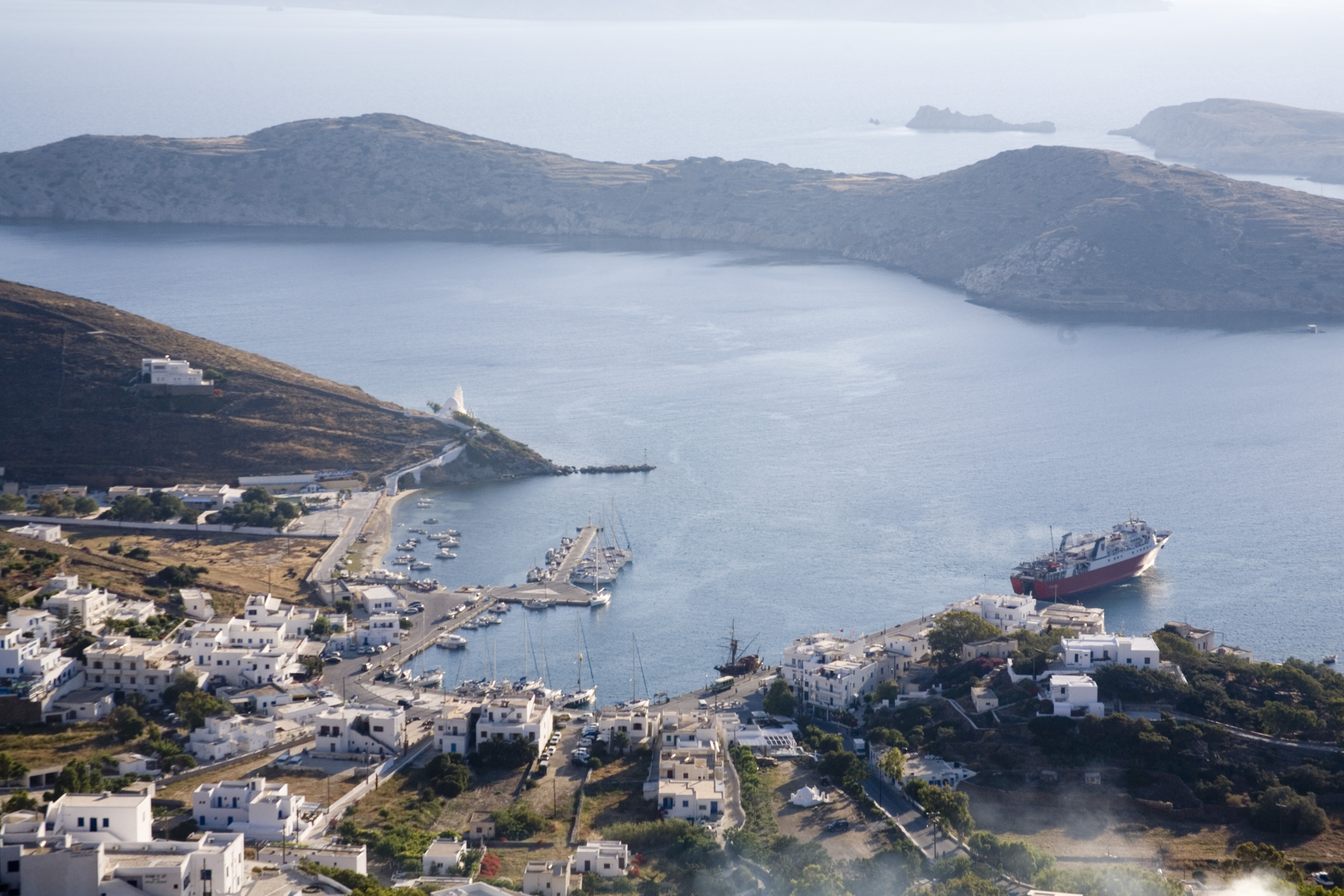 Ios Harbor with the islet of Diakofto, Cyclades, Greece